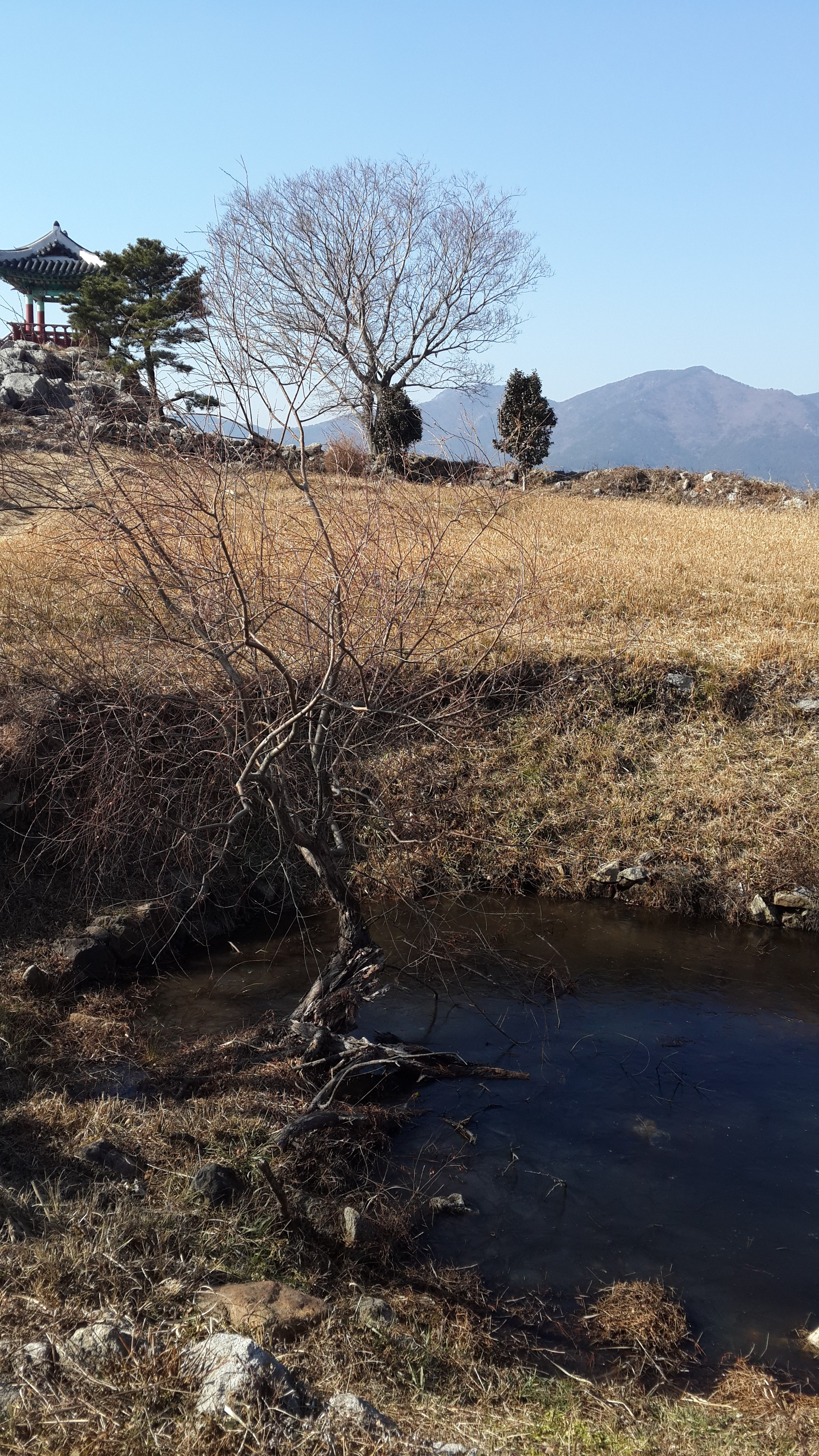 This is a picture of the top of Oksan Fortress